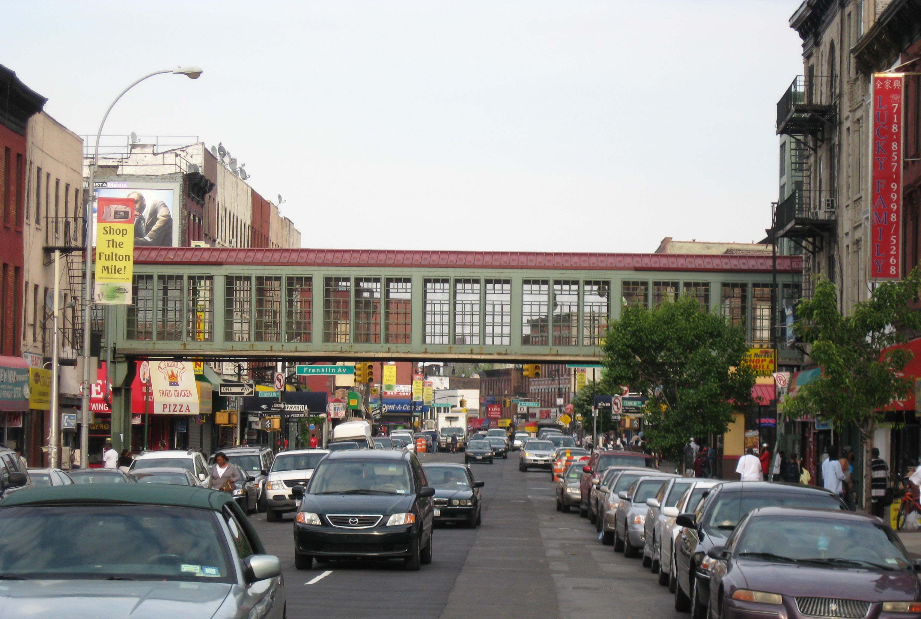 Looking east on a partly cloudy afternoon along Fulton Street towards Franklin Avenue